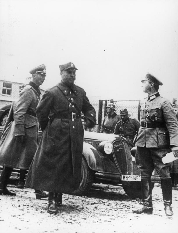 The Nazi-soviet Invasion of Poland, 1939 General Tadeusz Kutrzeba, the Deputy CO of the Army 'Warsaw' (Armia 'Warszawa'), arriving to negotiate the surrender of Polish capital with General Johannes Blaskowitz, the Commander of German 8th Army.